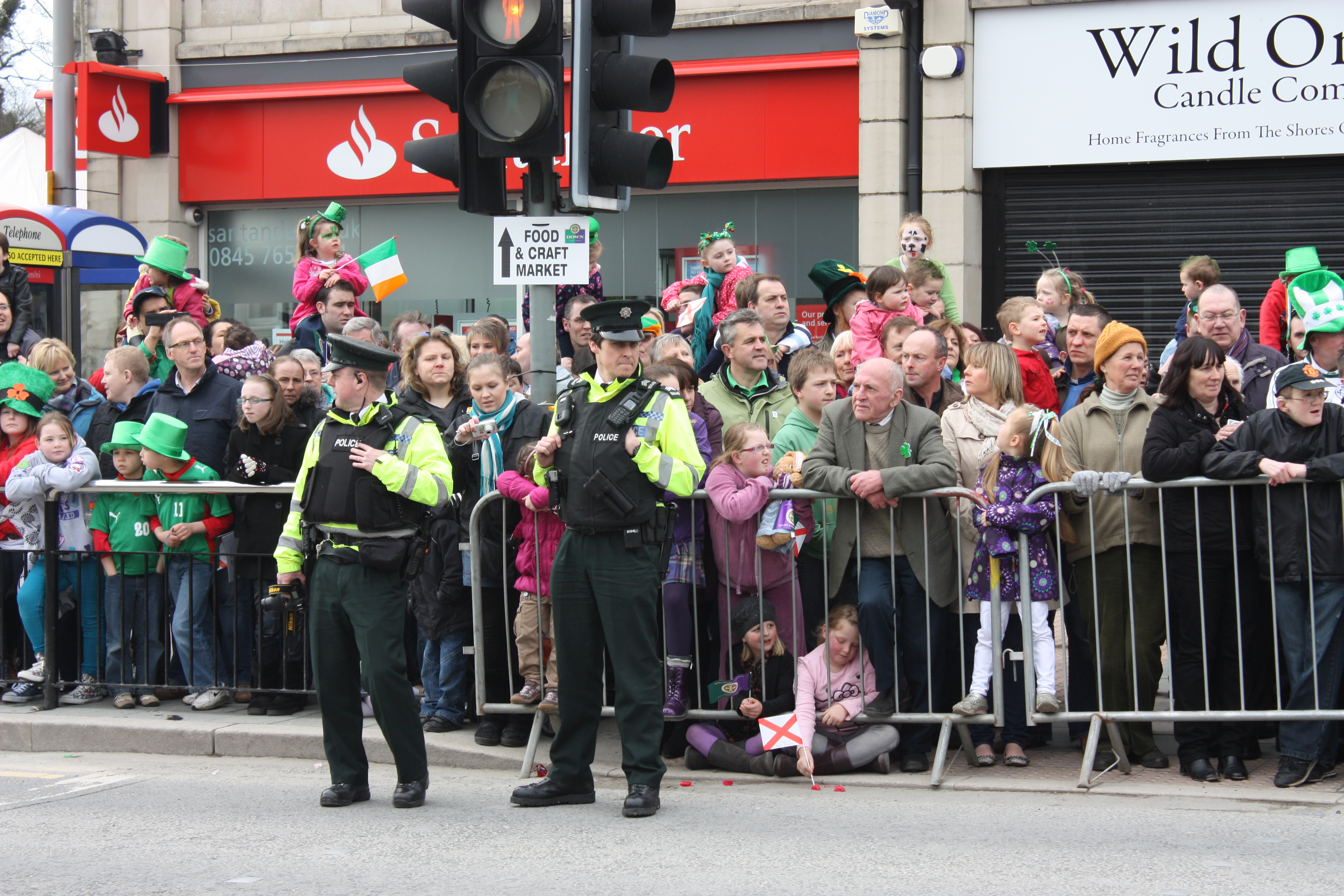 Crowds in Market Street, Downpatrick, County Down, Northern Ireland, March 2011